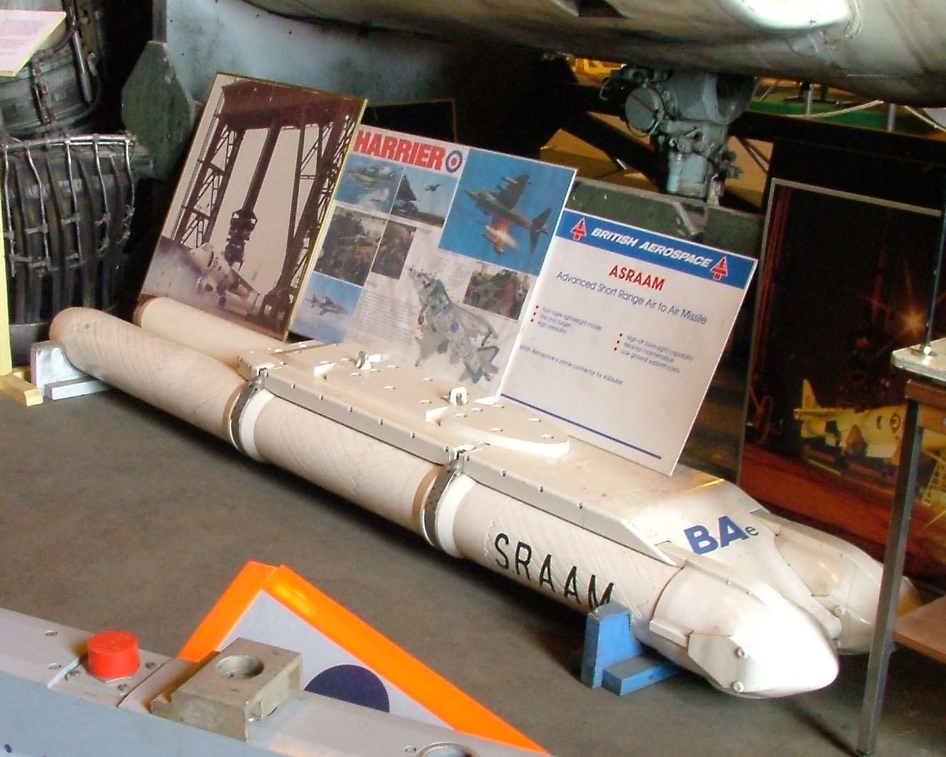 Launch canister for 2 SRAAM missiles. On display at the Bristol Aero Collection.